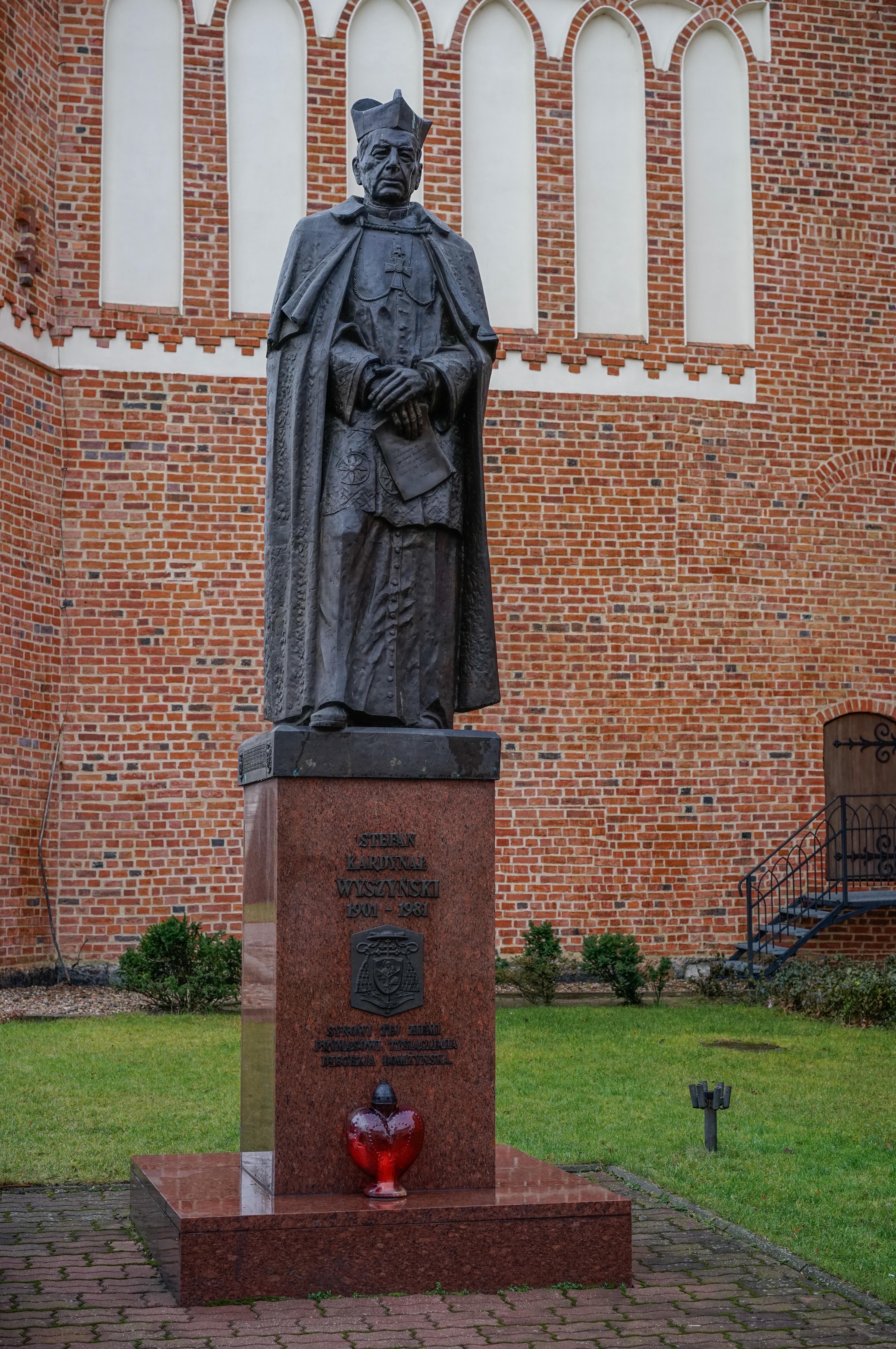 Monument to cardinal Stefan Wyszyński next to the cathedral in Łomża